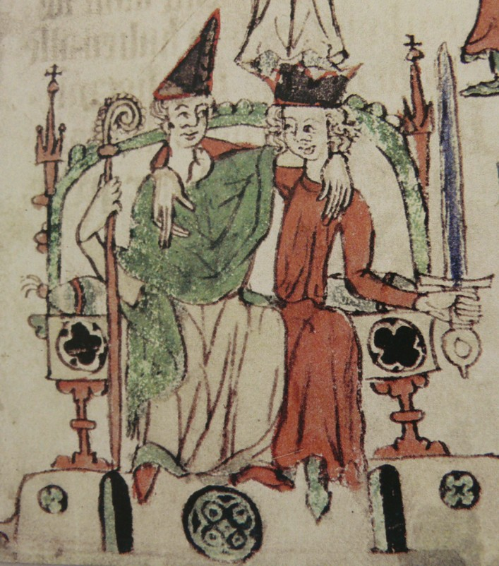 Sachsenspiegel